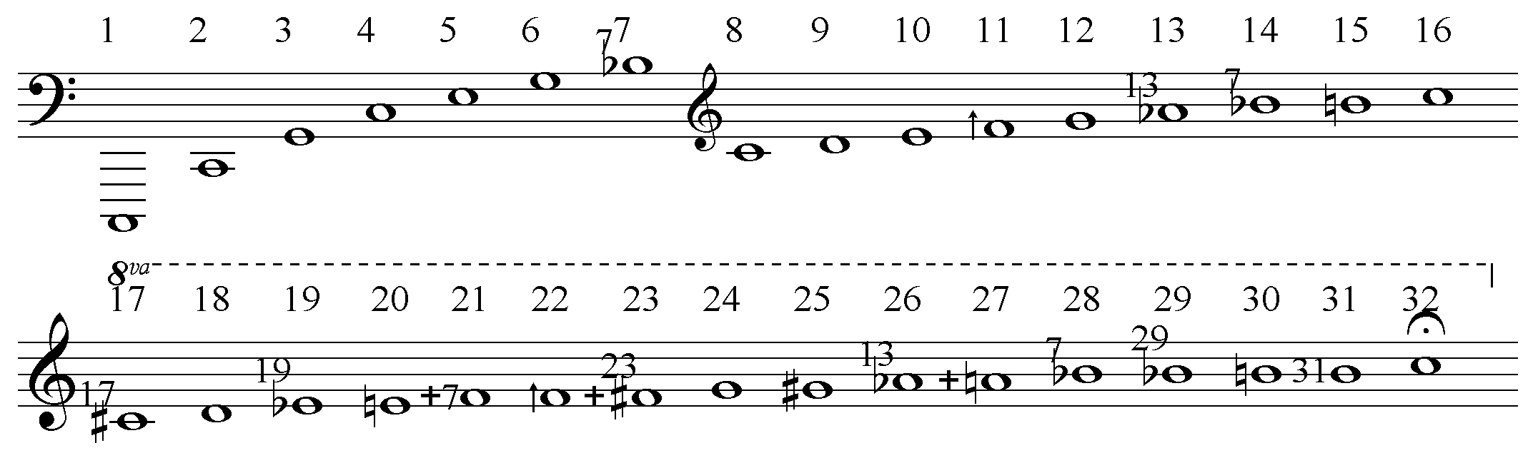 Harmonics on C: 1-32. Ben Johnston's just intonation notation.